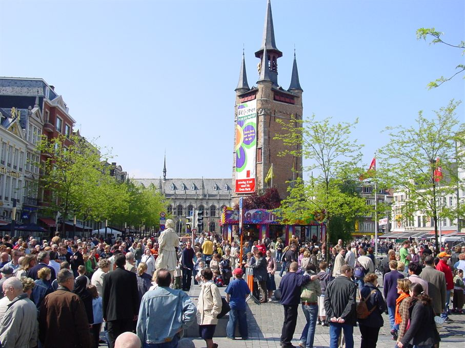 Sinksenfestival Kortrijk